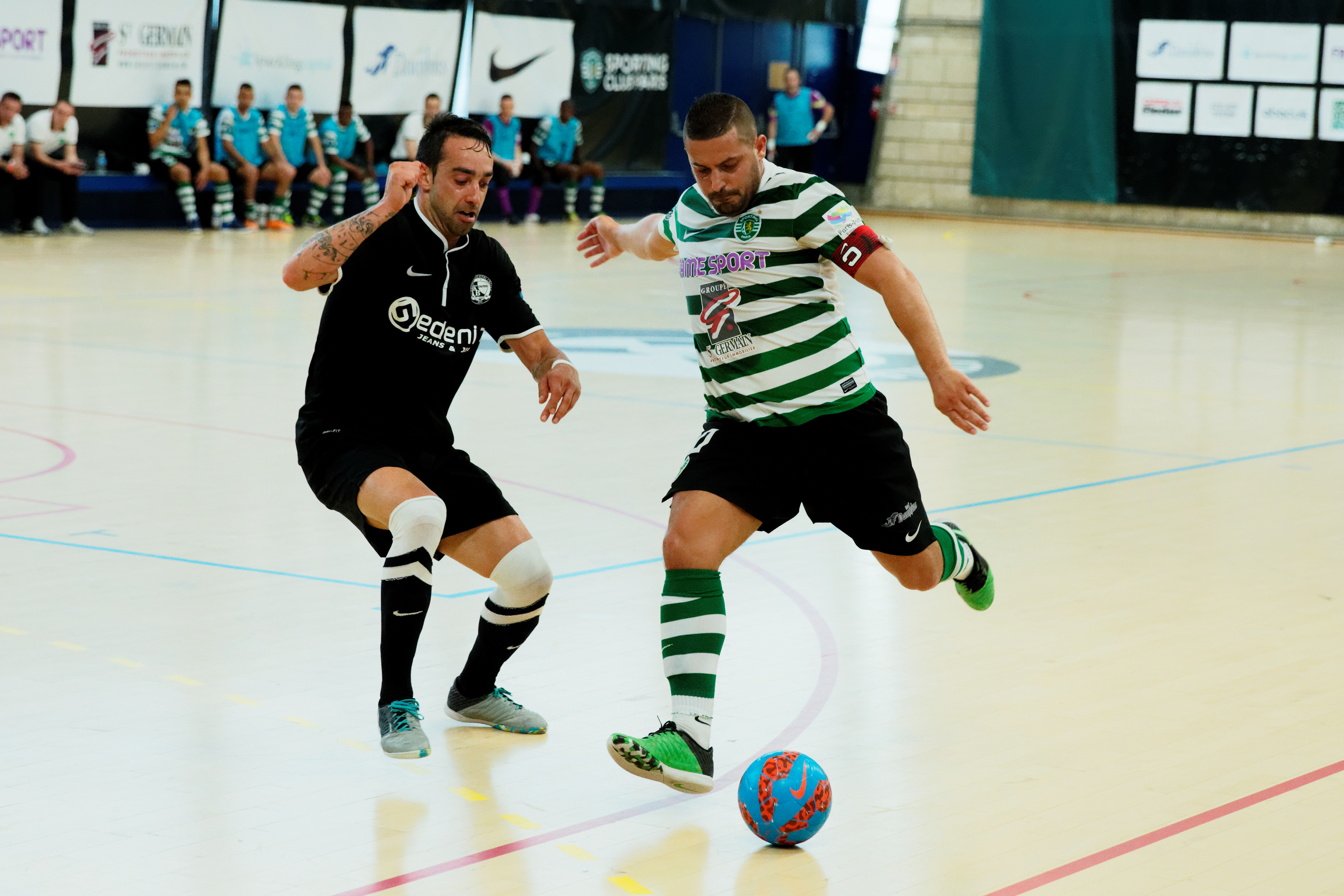 France futsal championship. Play-off. Sporting Club de Paris vs Kremlin-Bicêtre United.